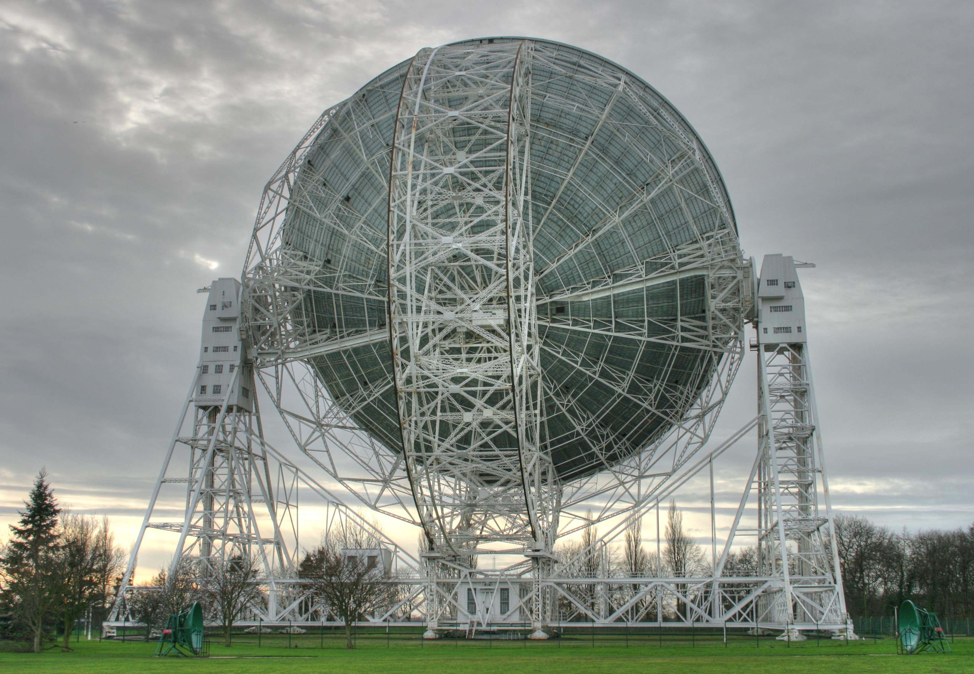 Rear of the Lovell Telescope. The underside of the surface is the underside of the original dish surface; the current surface is between 10 and 40 ft above the original, creating an internal cavern. In the center is a hinged cabin; this is kept in this orientation by, as the name suggests, a hinge, and used to hold the astronomers and their instruments (this is now done in the control building). The large "bicycle wheel" structure was added during the conversion from Mark I to Mark IA. The two towers are the "Red" and "Green" towers, named after the colours of their floors. The cabin at the bottom center holds the power supply for the telescope. The two small, green telescopes are acoustic telescopes for public demonstrations.